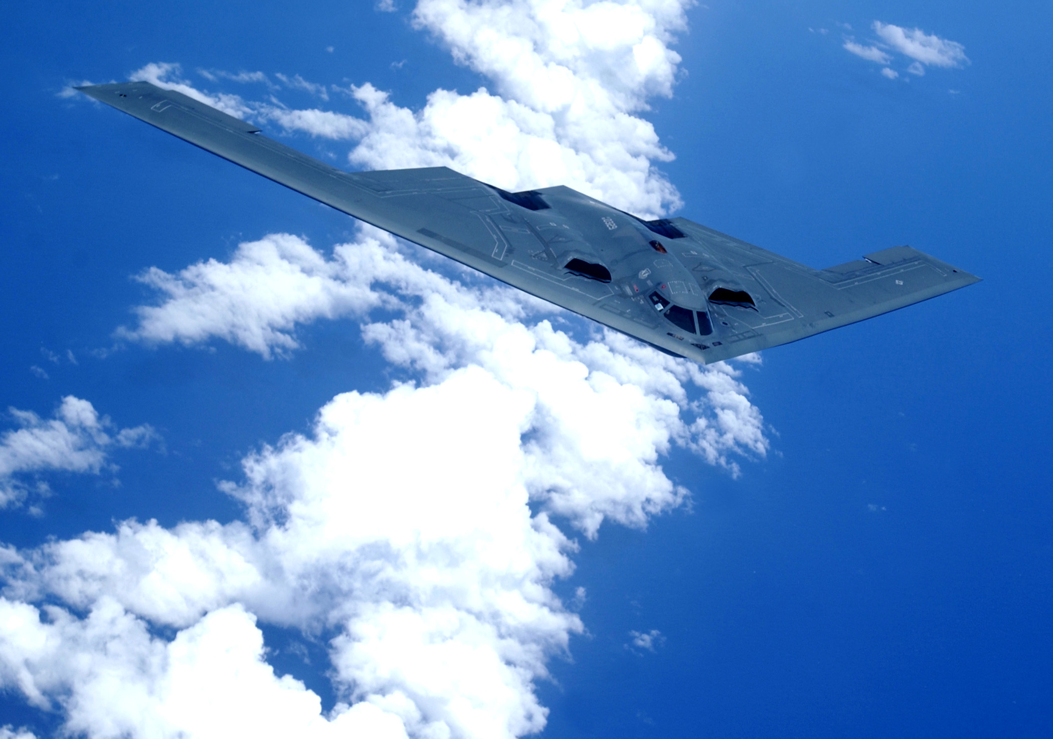 OVER THE PACIFIC OCEAN -- A B-2 Spirit soars through the sky after a refueling mission here May 2. The B-2 is assigned to the 393rd Expeditionary Bomb Squadron from Whiteman Air Force Base, Mo. The bomber is currently deployed to Andersen AFB, Guam, as part of a continuous bomber presence in the Asia-Pacific region. (U.S. Air Force photo by Tech. Sgt. Cecilio Ricardo)